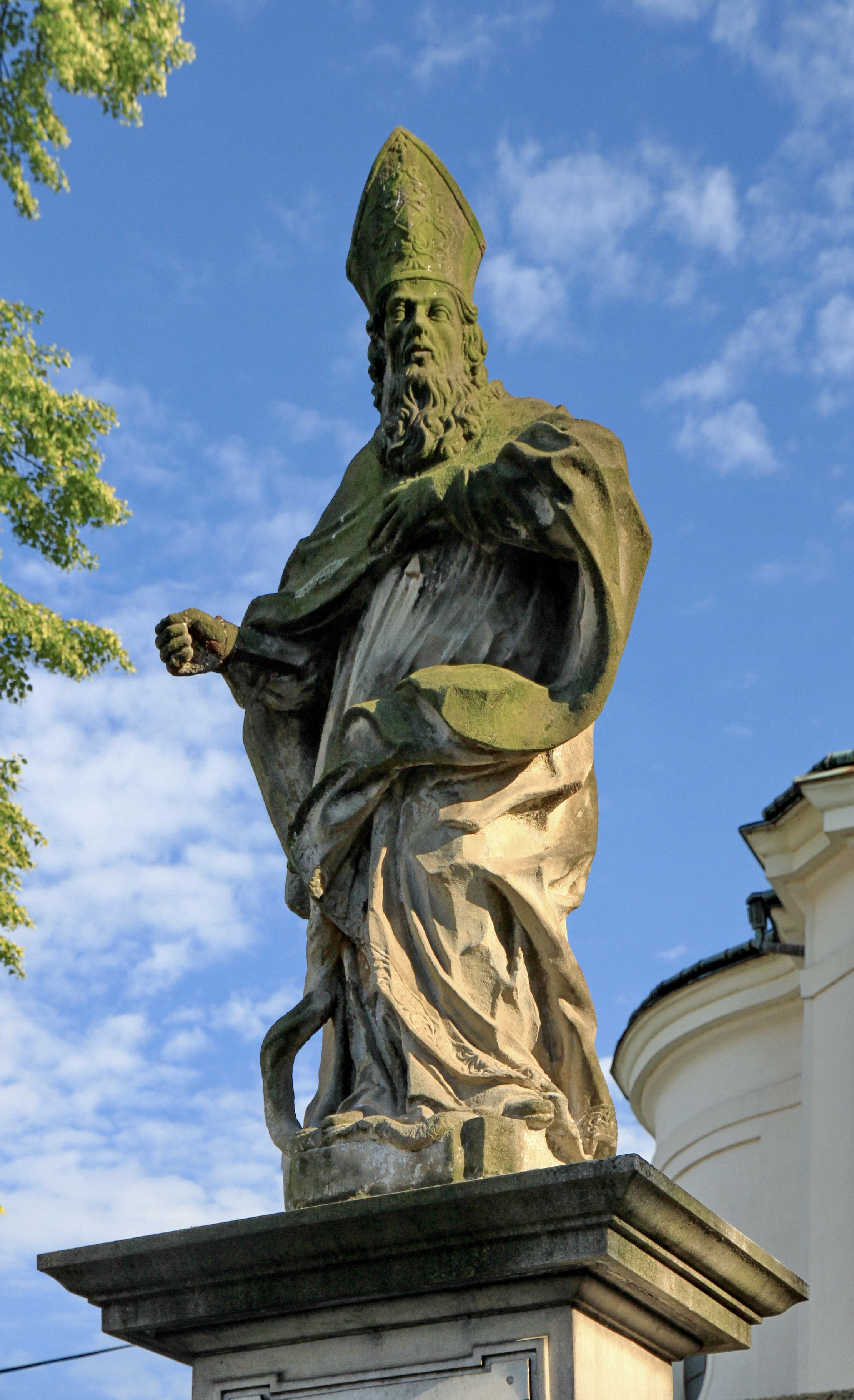 Statue of Saint Patrick near church of Saint John the Baptist, Dolní Lutyně. Moravian-Silesian Region, Czech Republic.